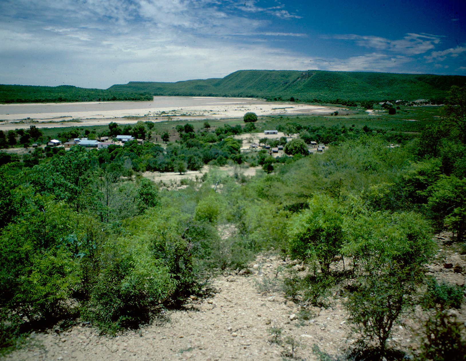 Fiherenana River, South-West Madagascar